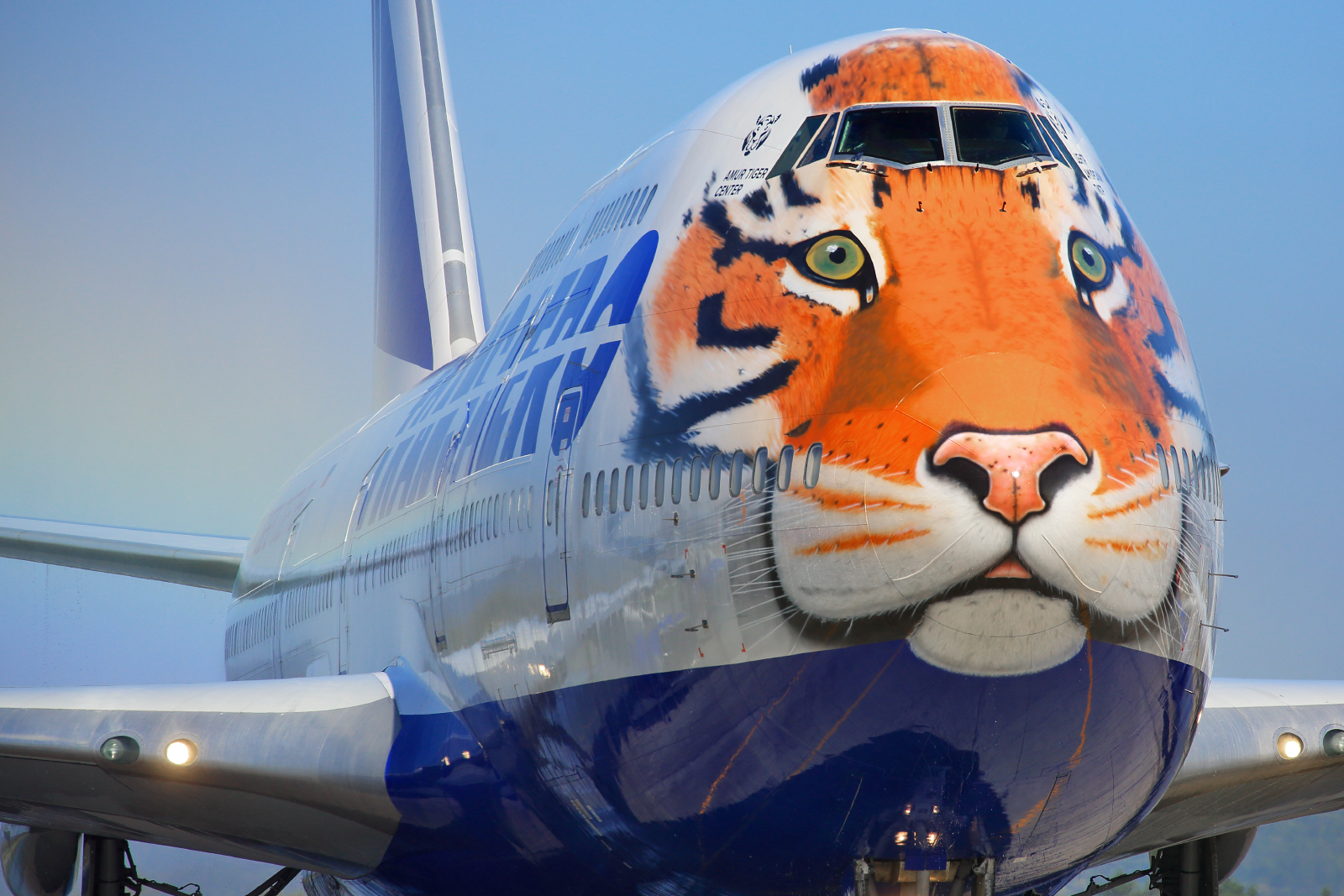 Transaero (Siberian Tiger livery) Boeing 747-412 at Vladivostok Airport